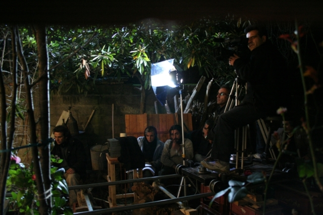 Behind the Scenes series, empty frames Photo: Sara ardebili